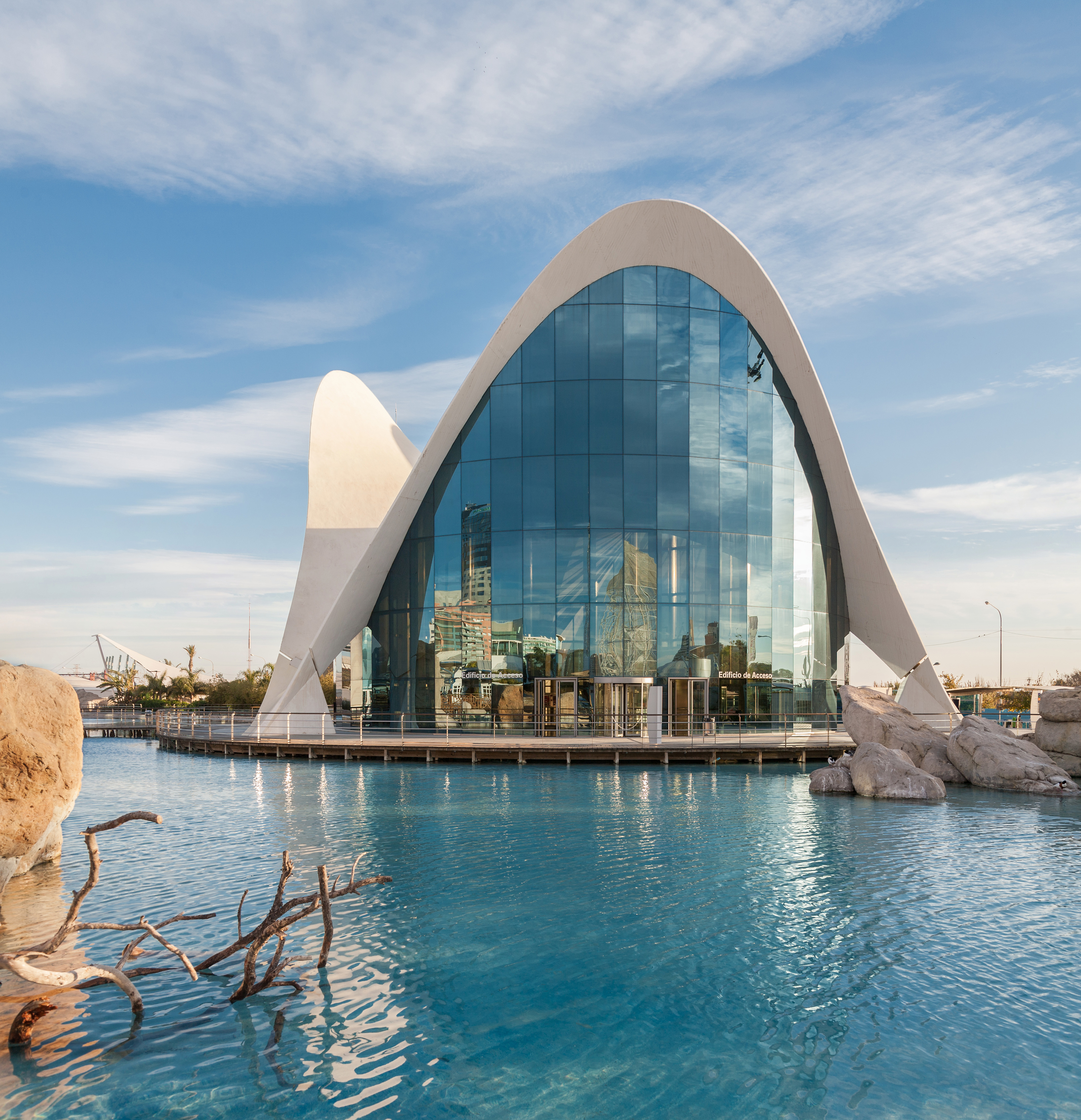 The main entrance of L'Oceanografic in Valencia, Spain as viewed from the side across the water.